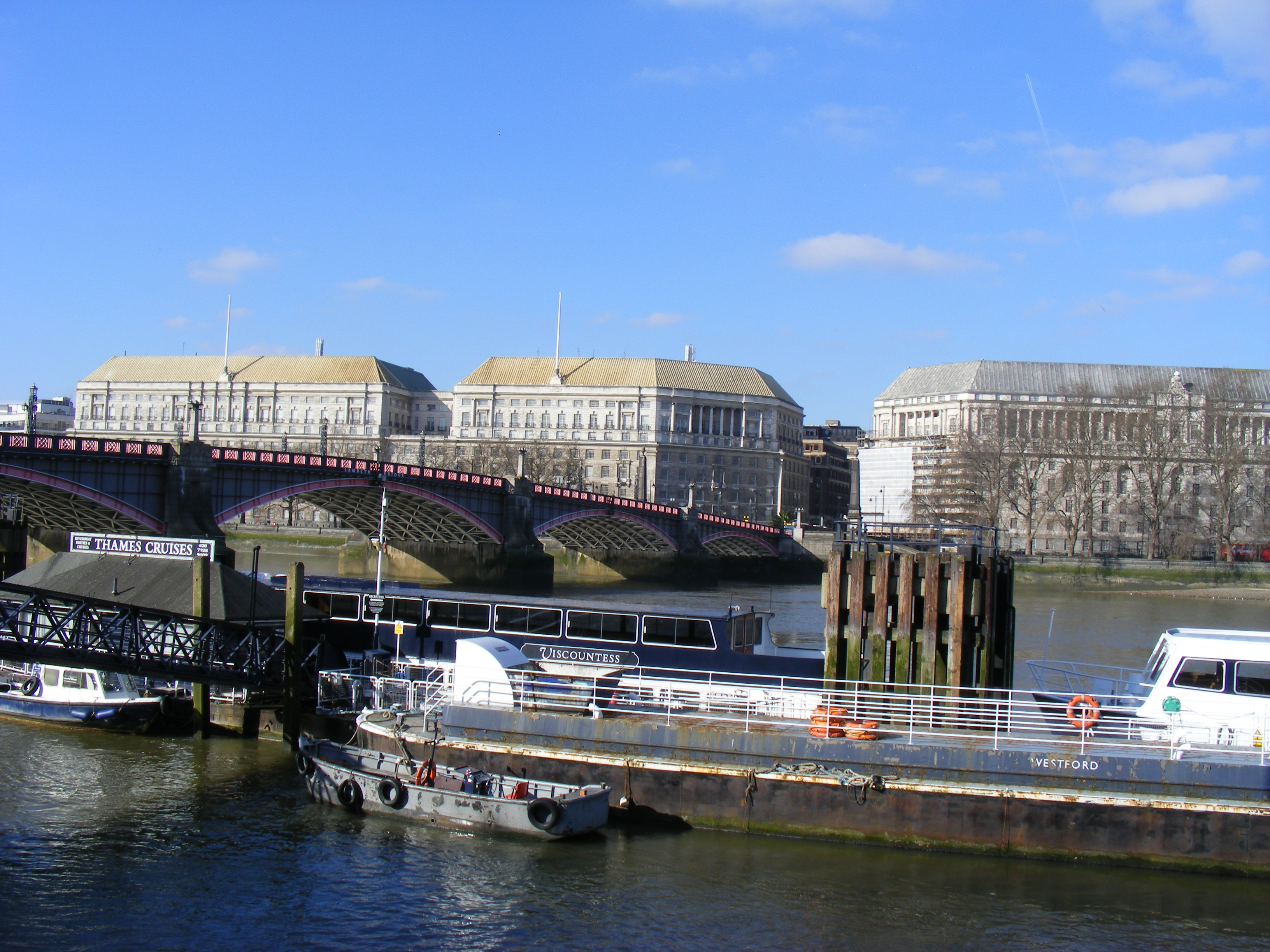 Lambeth Bridge London The bridge has five steel spans it was designed by Sir George W. Humphreys, the Chief Engineer to the London County Council, in collaboration with the architects, Sir Reginald Blomfield and G. Topham Forrest.